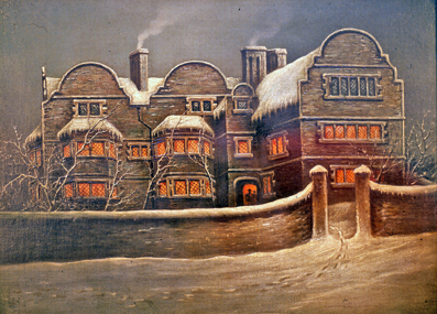 Oil painting by an unknown artist, Theme, Walsall Landscape, landscape, urban, architecture, walsall artist, pub, winter, snow, weather